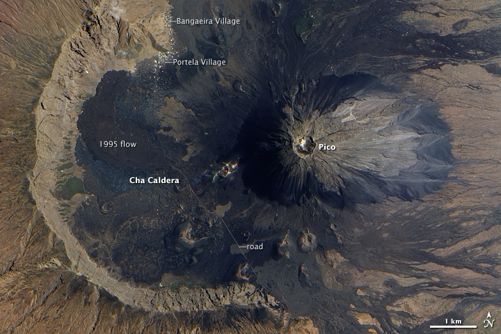 Chã das Caldeiras, Fogo, Cape Verde islands.